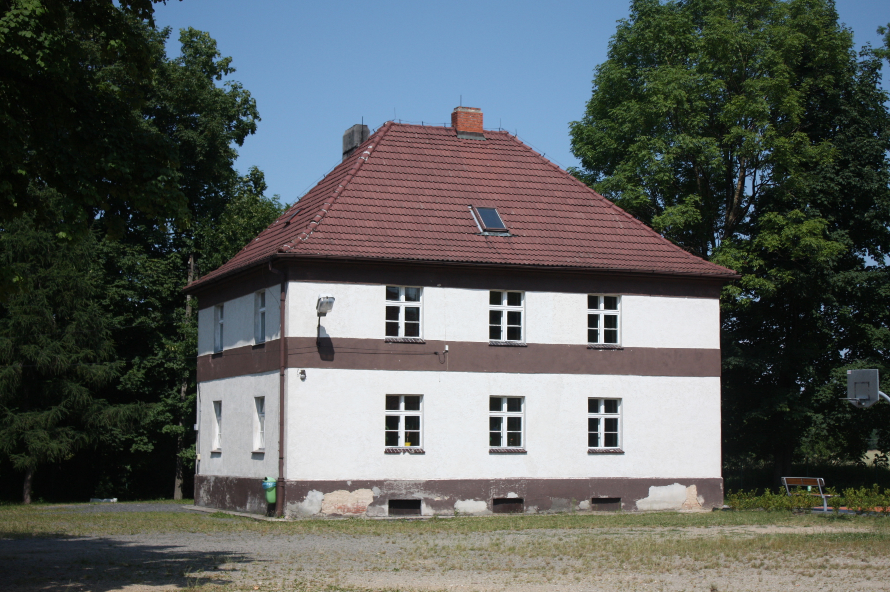 This photo of Lower Silesian Voivodeship was taken during Wikiexpedition 2013 set up by Wikimedia Polska Association. You can see all photographs in category Wikiekspedycja 2013. English | Polski | +/−